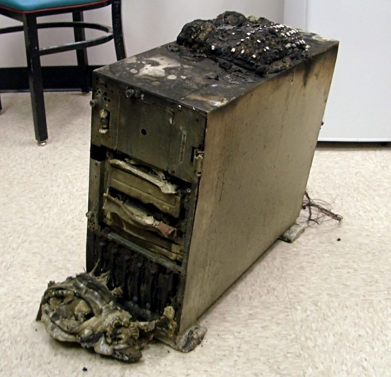 This server was destroyed in the Choteau fire in NE Oklahoma on 11/27. This is why I stress to my clients the need for off-site backups. That's a telephone on top. Any small business owners out there should ask themselves "What would I do tomorrow if none of my data was retrievable". The answer in many cases is "I'd go out of business". Backups are cheap insurance, and if you don't store them off-site, you will regret it one day. Even taking yesterday's tape home with you is better than leaving it at the office.